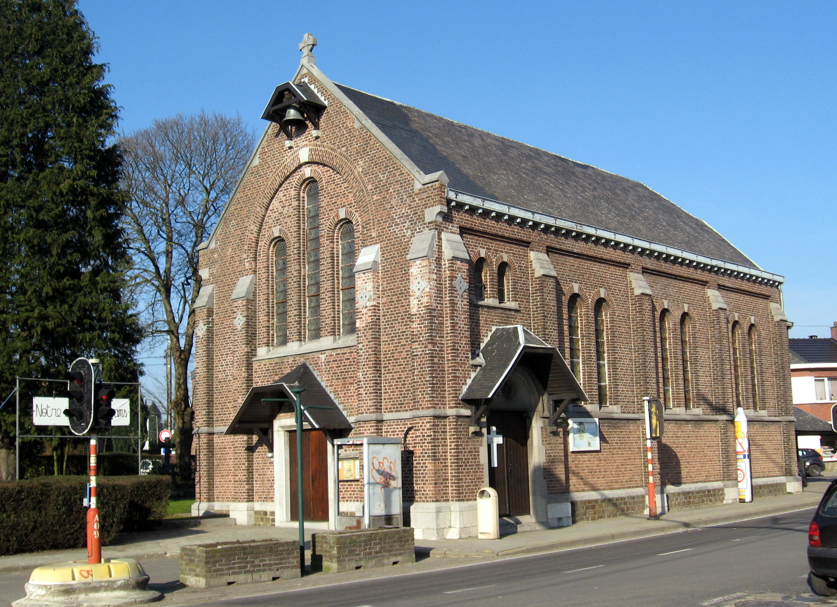 Church of the Visitation of Our Lady in Micheroux, Soumagne, Liège, Belgium